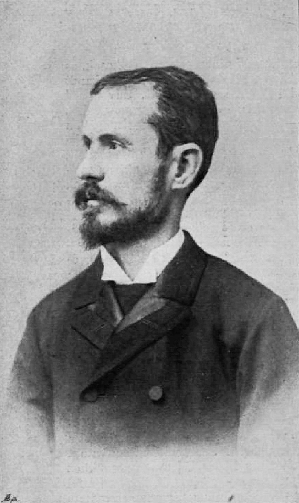 Dezső Perczel, Interior Minister